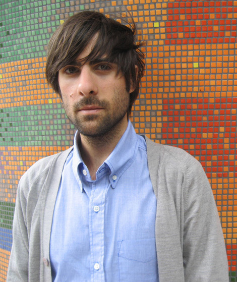 Leadman Jason Schwartzman